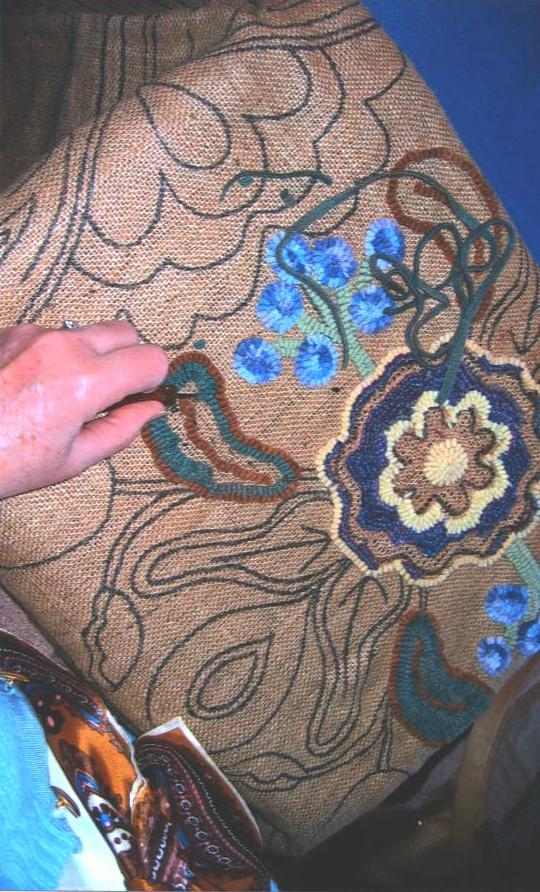 A craftsperson creates a hooked rug by pulling lengths of cloth, usually wool, through a woven fabric. In years past burlap was the most common backing, but today's rug hookers use coarse woven linen, rug warp or monk's cloth for durability. Photography and by Shirley Chaiken. Uploaded by Alison Chaiken.